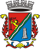 Coat of arms of São Leopoldo city, Rio Grande do Sul, Brazil.